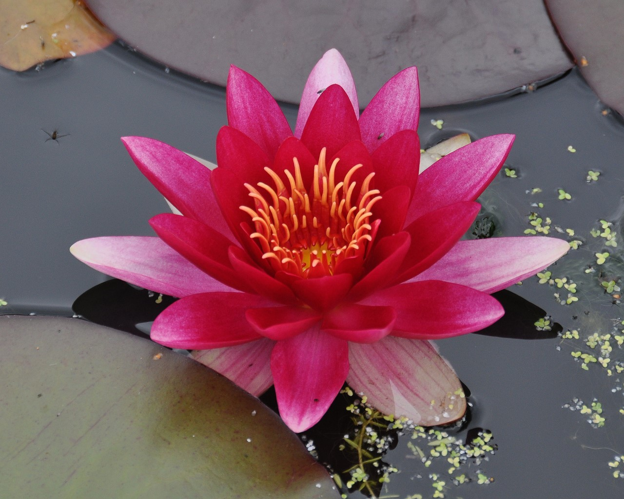 Water Lily "Attraction"